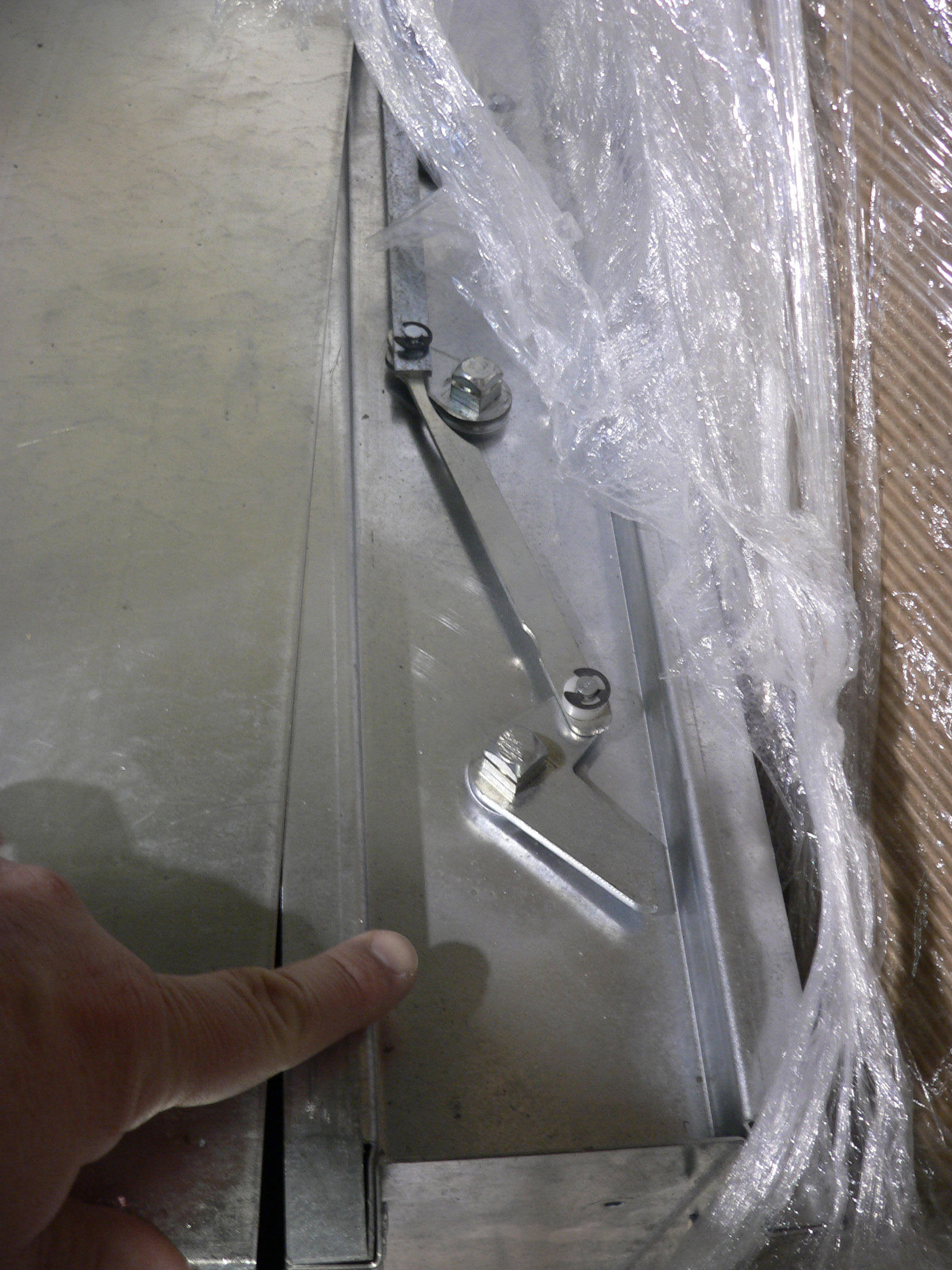 Closing mechanism of North American fire and smoke damper. This mechanism is open on the side. That is why at the point of through-penetration, there must be an air gap around the outside of the damper. This is closed off with angle iron. That means that smoke can migrate through this gap. If that gap were sealed with firestop caulking, this may void the listing of the damper. This means that North American dampers permit exterior smoke migration.